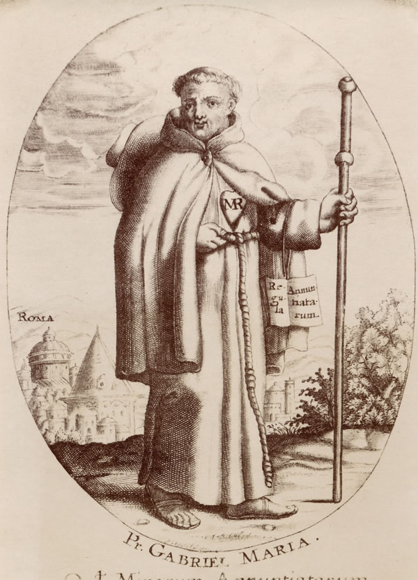 Drawing with blessed Gabriel Maria NIcolas walking to Rome, to obtain approvation of the rule for the Annunciade Nuns